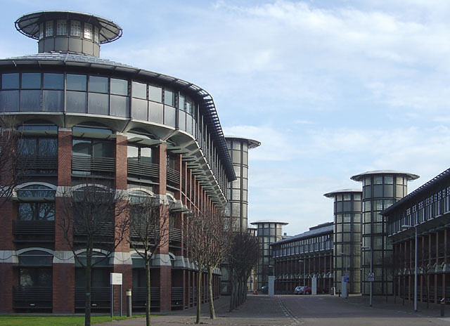 HM Revenue and Customs This is the main avenue through the award winning complex of buildings that form the national headquarters of the Revenue and Customs service